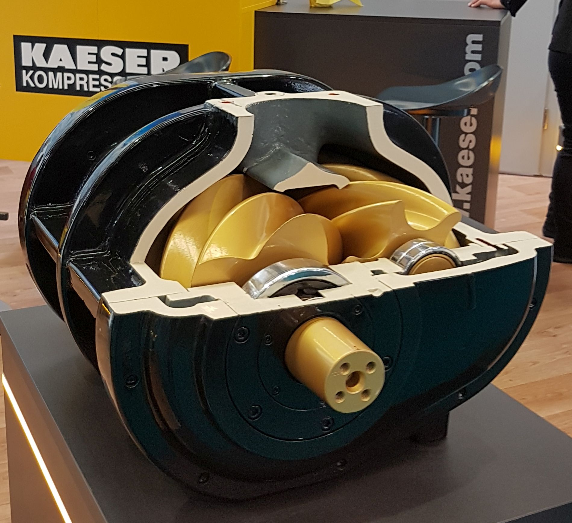 Model of a screw compressor from Kaeser at the Interalpin, exhibition in Innsbruck in Tyrol, Austria.